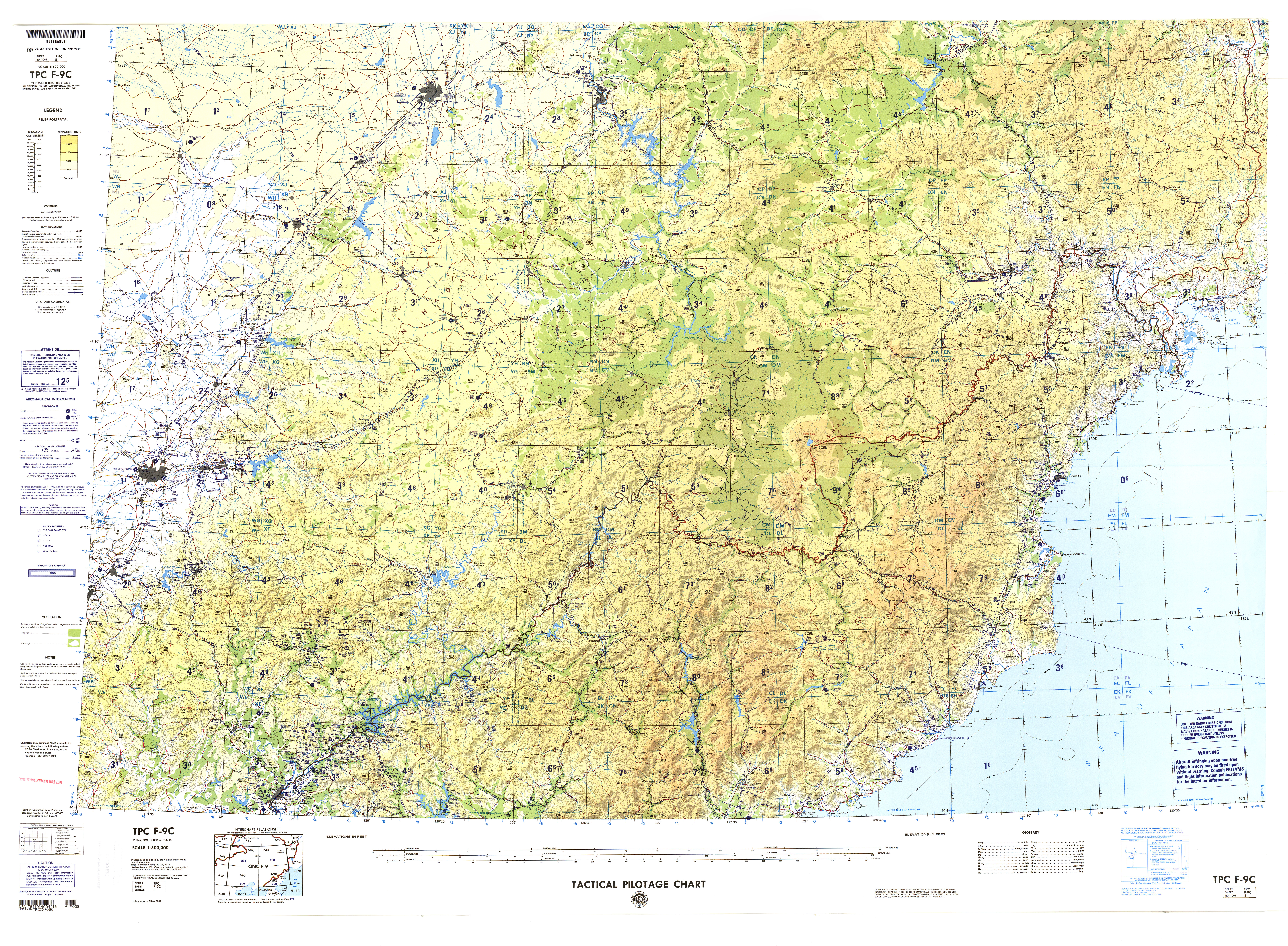 Tactical Pilotage Chart Series - World 1:500,000 Scale